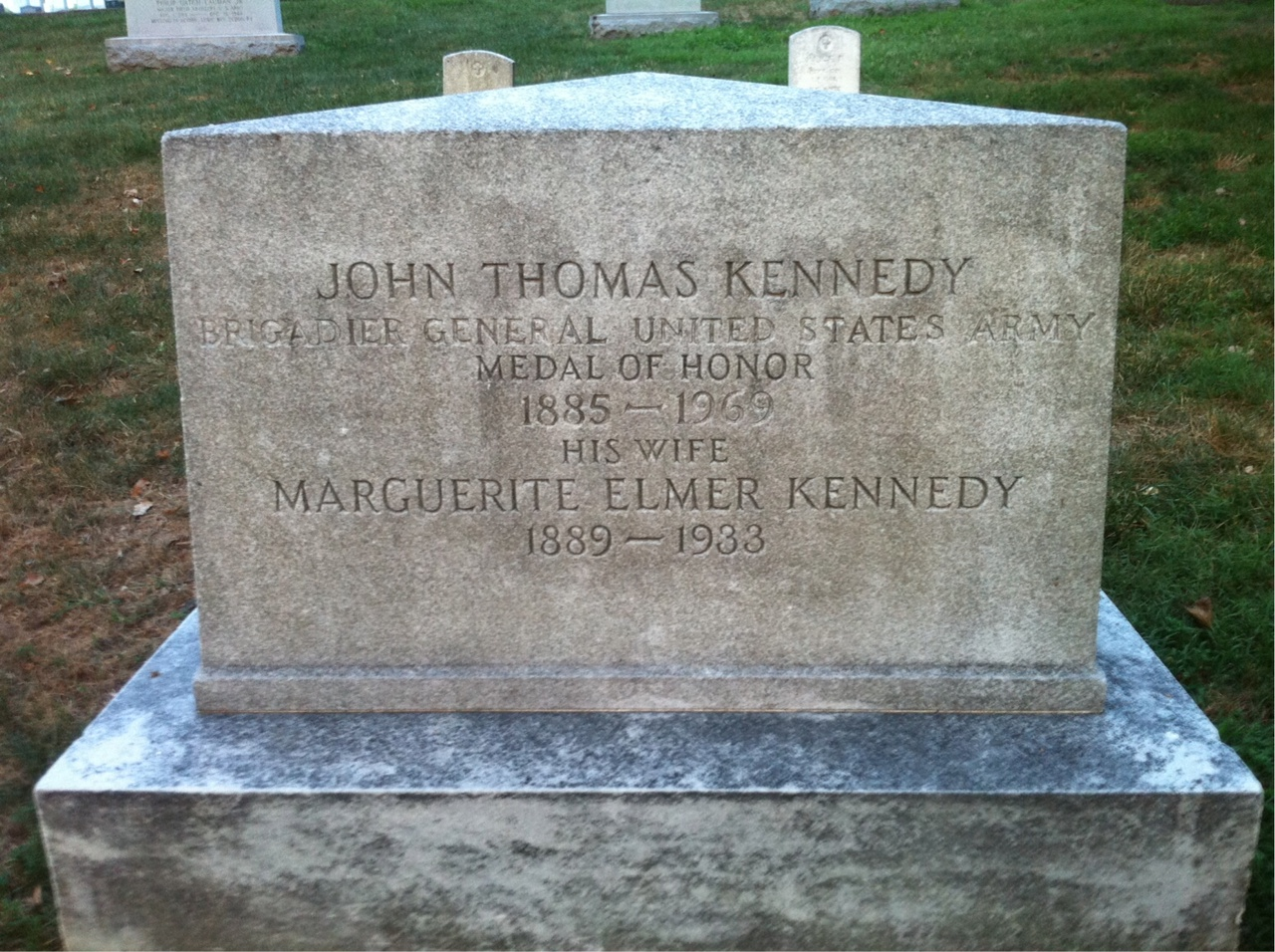 Grave of John Thomas Kennedy at Arlington National Cemetery